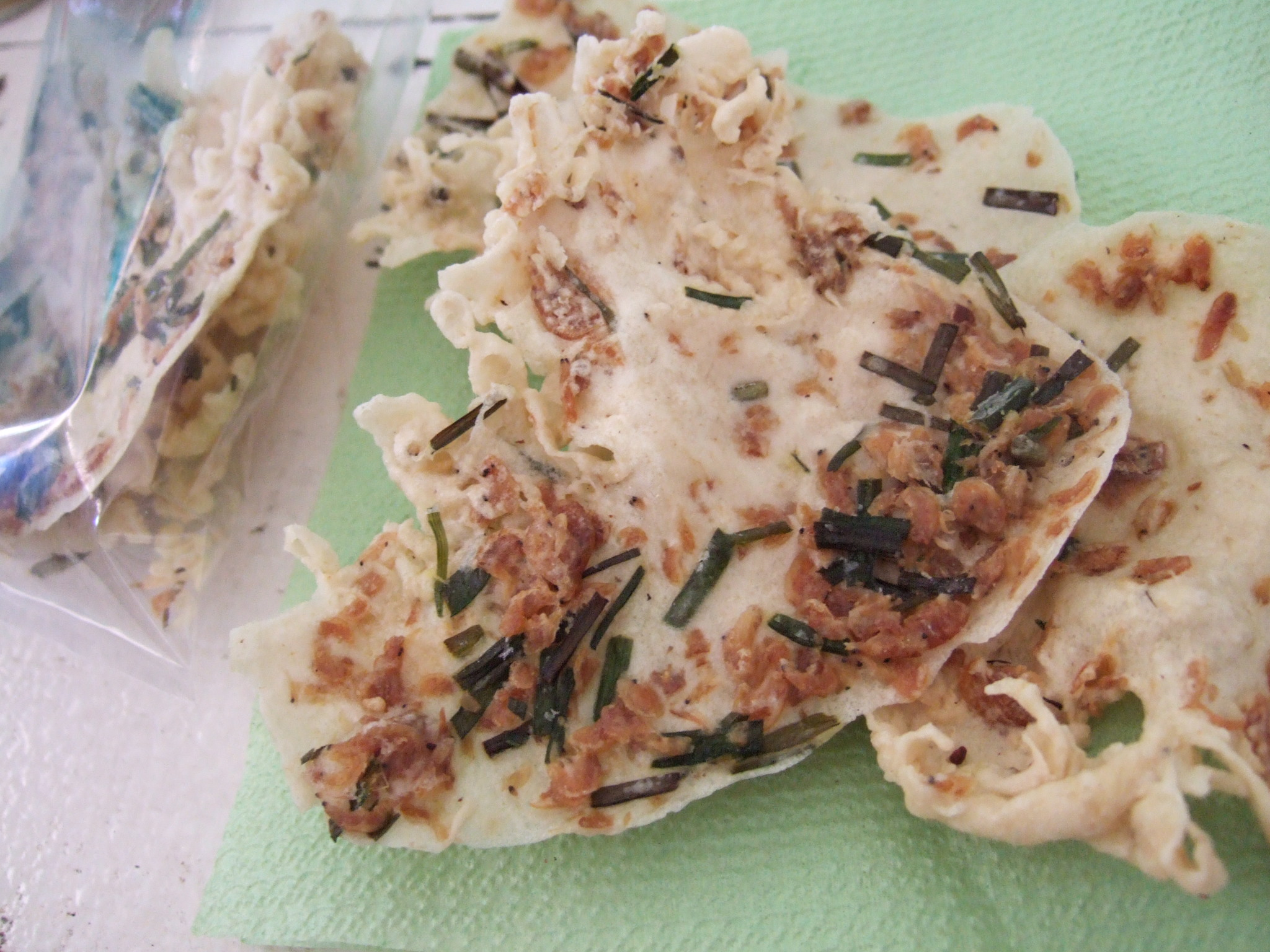 Dried shrimp rice crackers, Wonosobo, Central Java